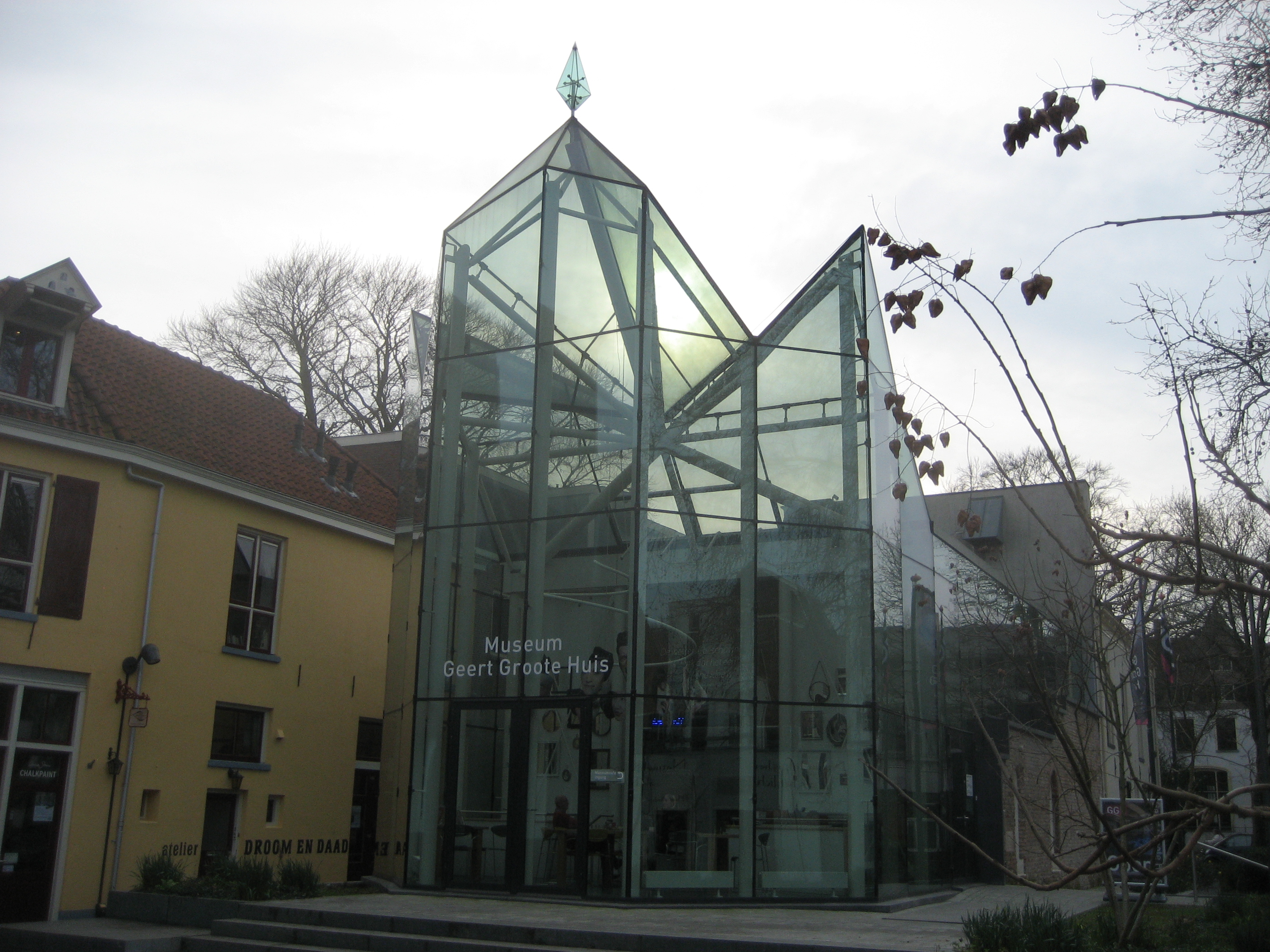 Museum Geert Groote Huis, Deventer (the Netherlands)